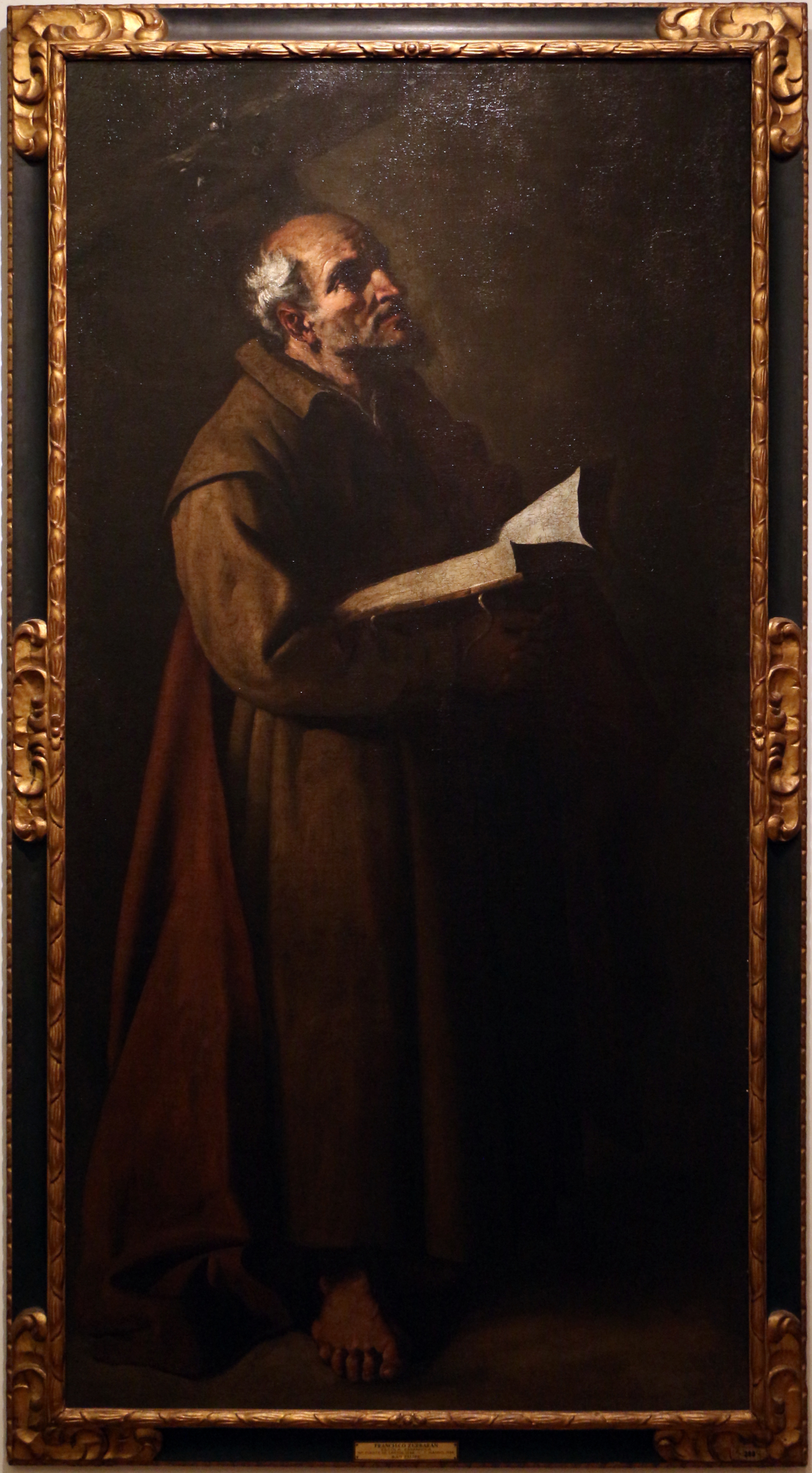 Spanish paintings in the Museu Nacional de Arte Antiga